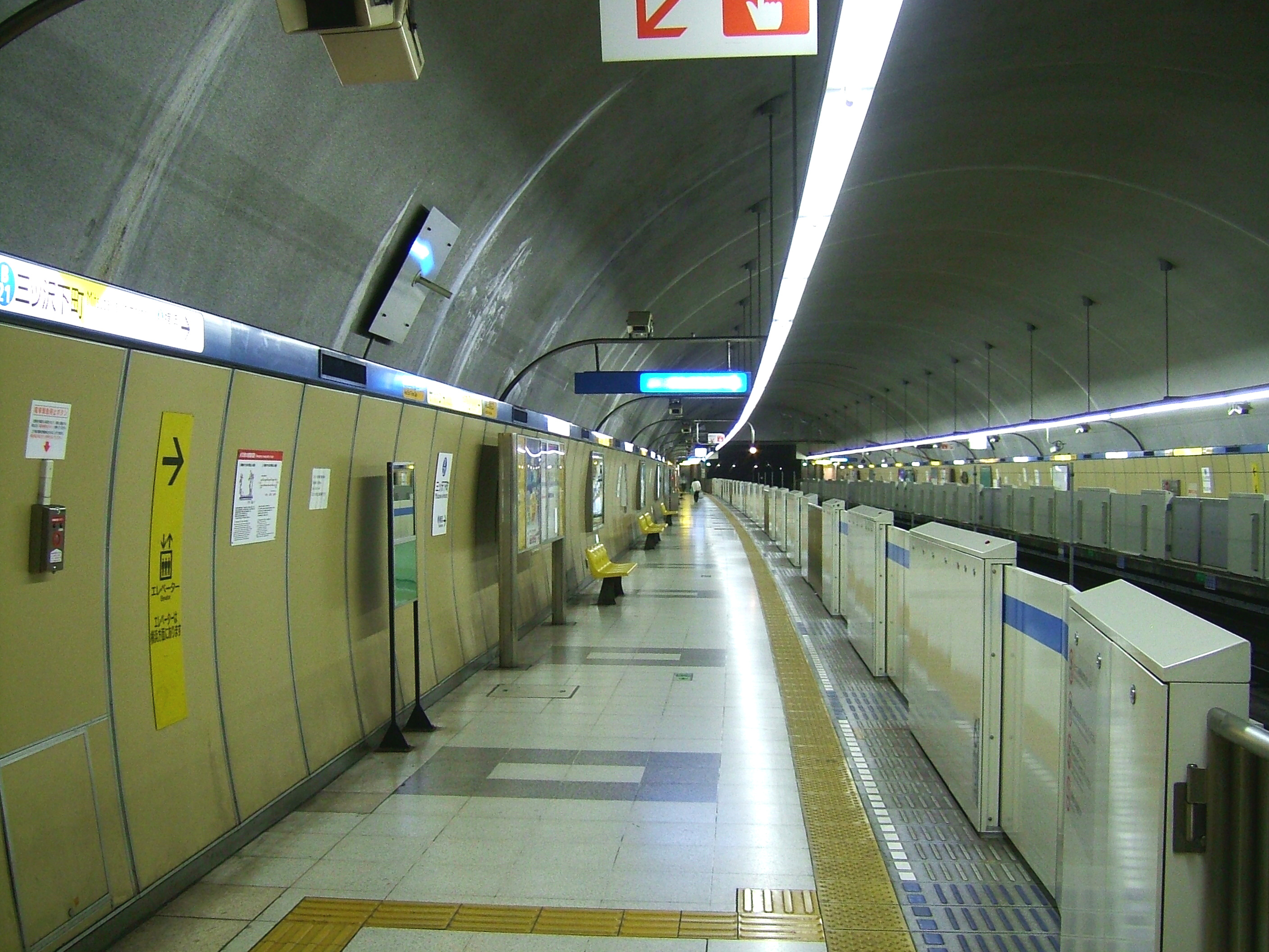 Mitsuzawa-shimochō Station platform (Yokohama Municipal Subway Blue Line)